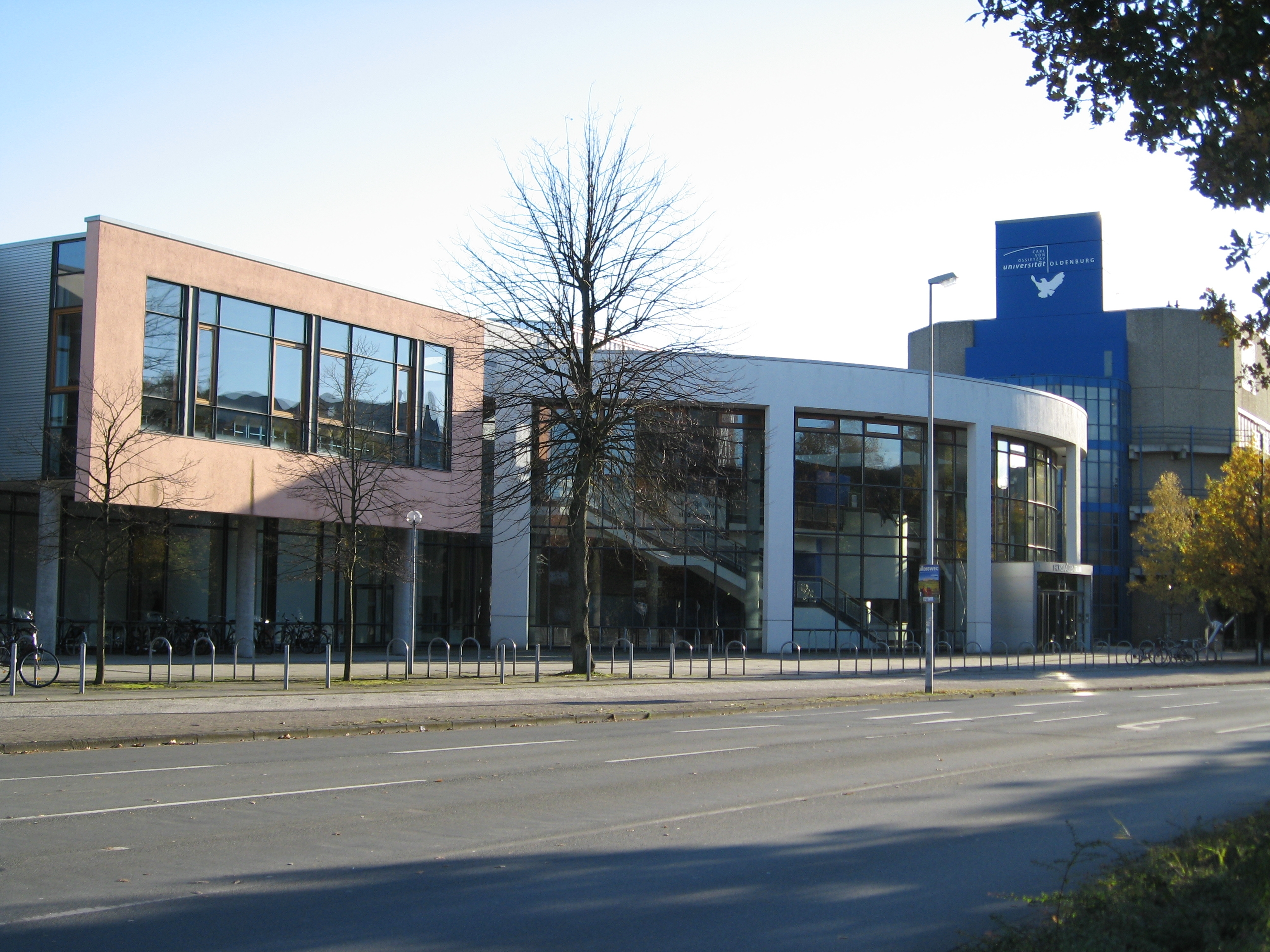 Lecture hall in main campus, University of Oldenburg.